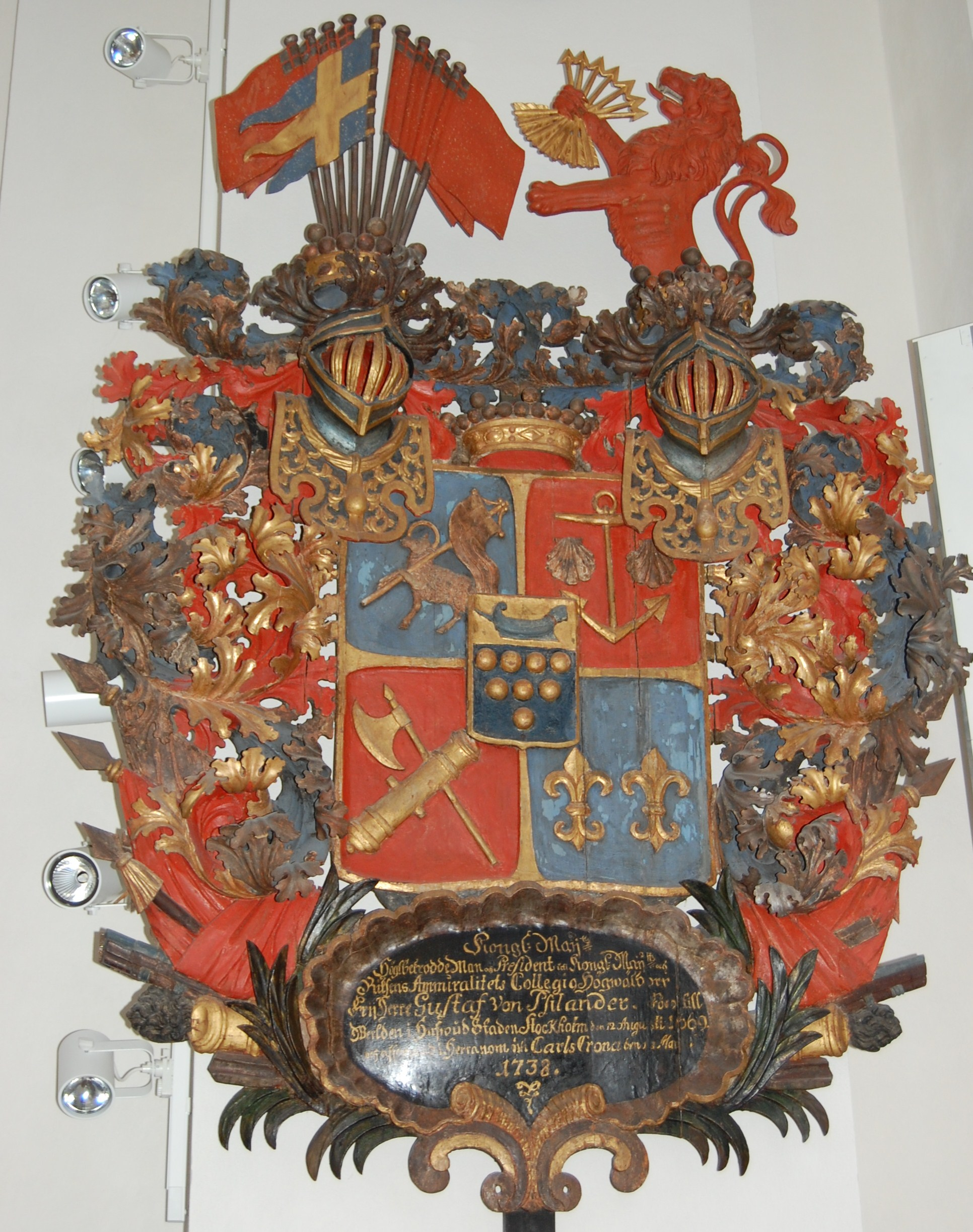 Kalmar Cathedral. The funeralweapons of Baron Gustaf von Psilander. Died 18 March 1738.